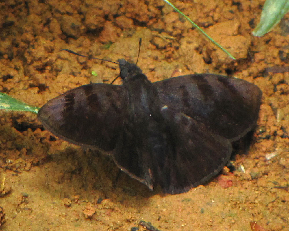 Blurred Bentwing (Ebrietas evanidus), Tambopata Park, Peru